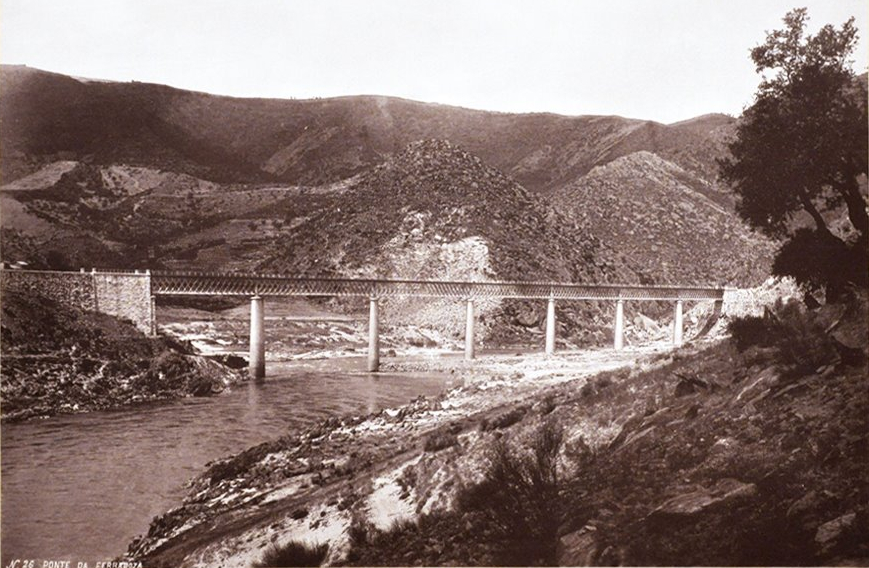 Douro bridge (Ferradoza bridge), seen from the right bank.